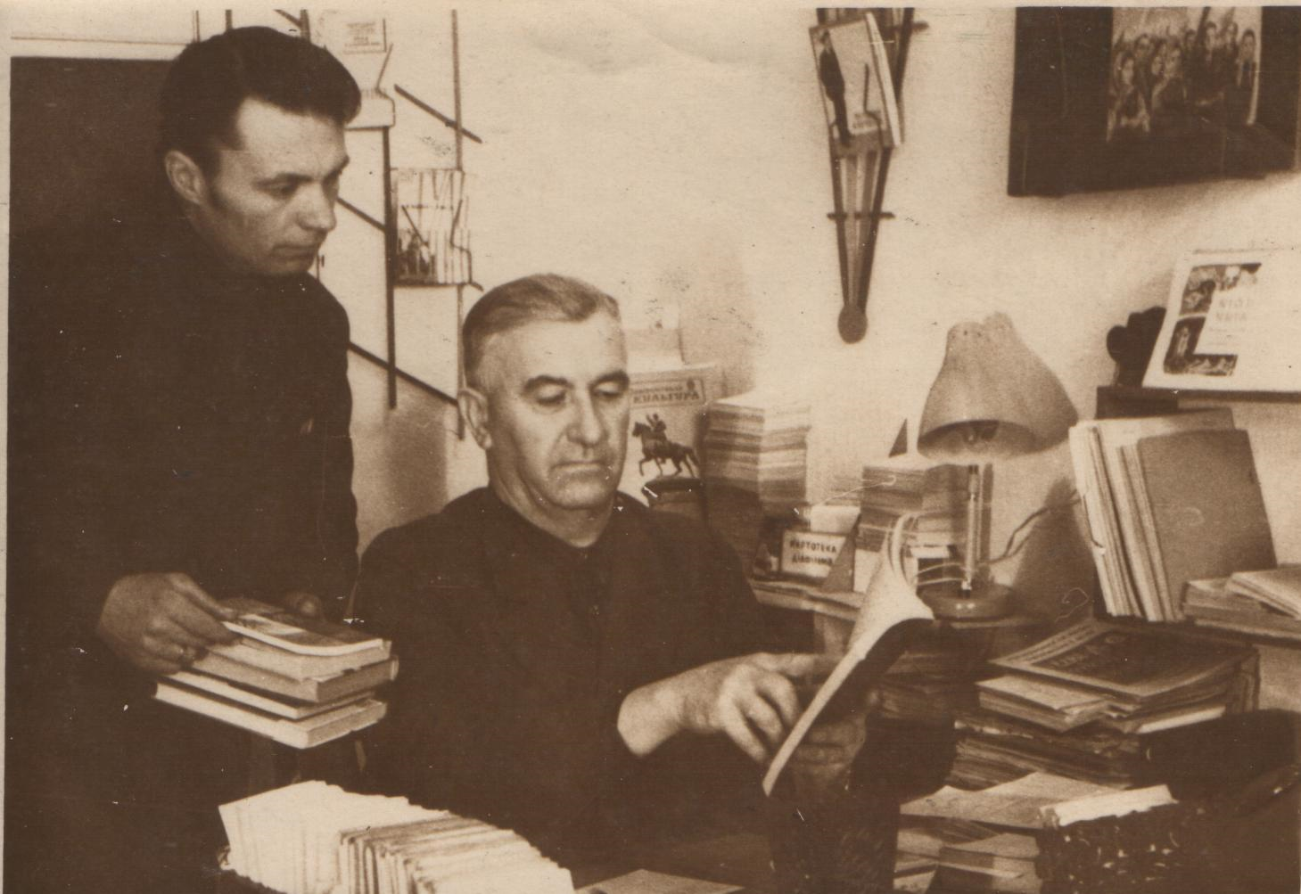 Сільська бібліотека